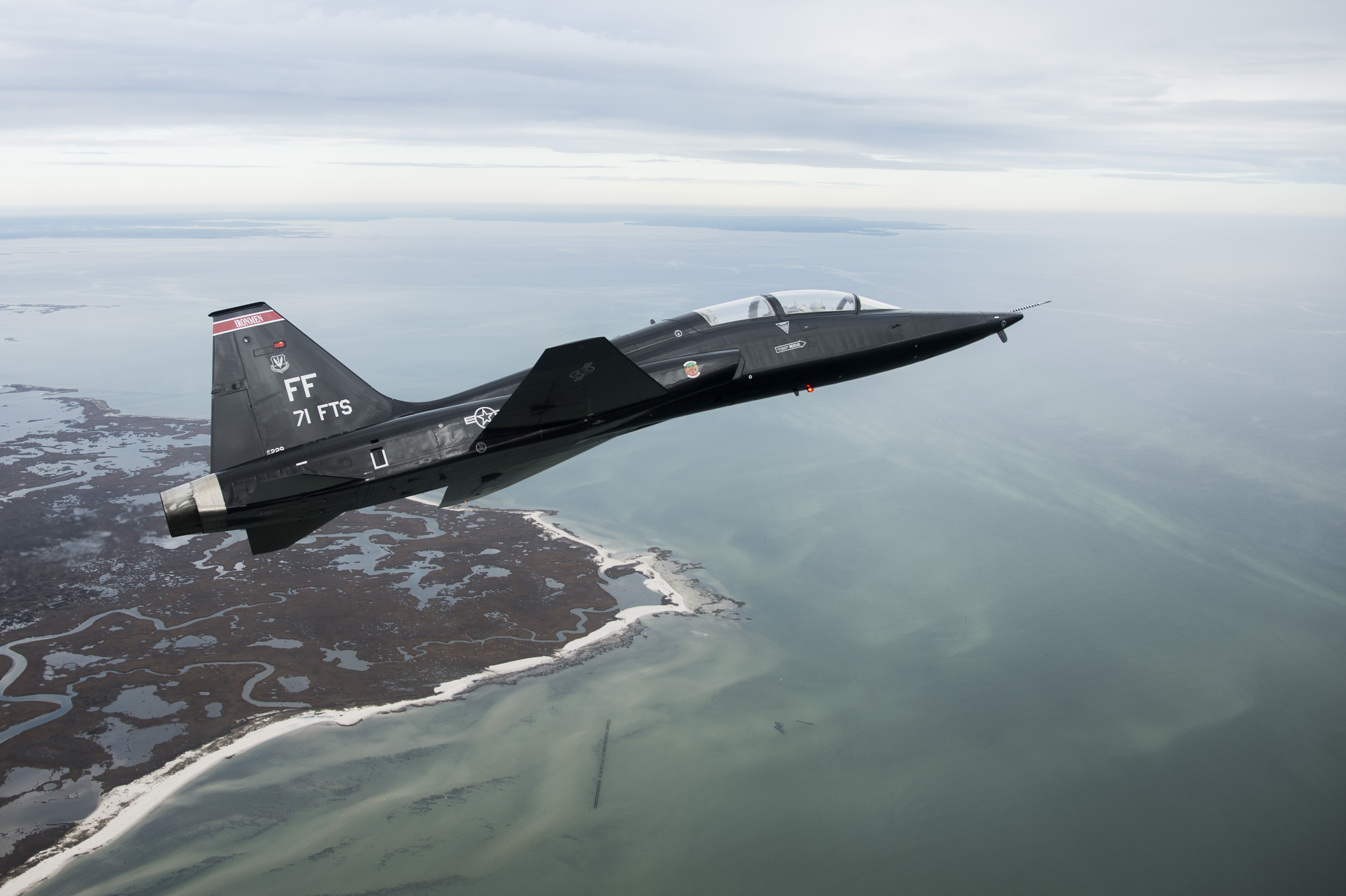 A T-38 Talon approaches the Atlantic Ocean after departing from Langley Air Force Base, Va., Dec. 7, 2015. As part of the Trilateral Exercise, the Talon’s will be acting as adversary aircraft. (U.S. Air Force photo by Senior Airman Kayla Newman)